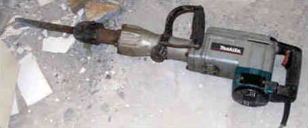 Makita single phase demolition breaker. Photograph by Bill Bradley. Feel free to use it, just credit me as the photographer. You can contact me through my website.